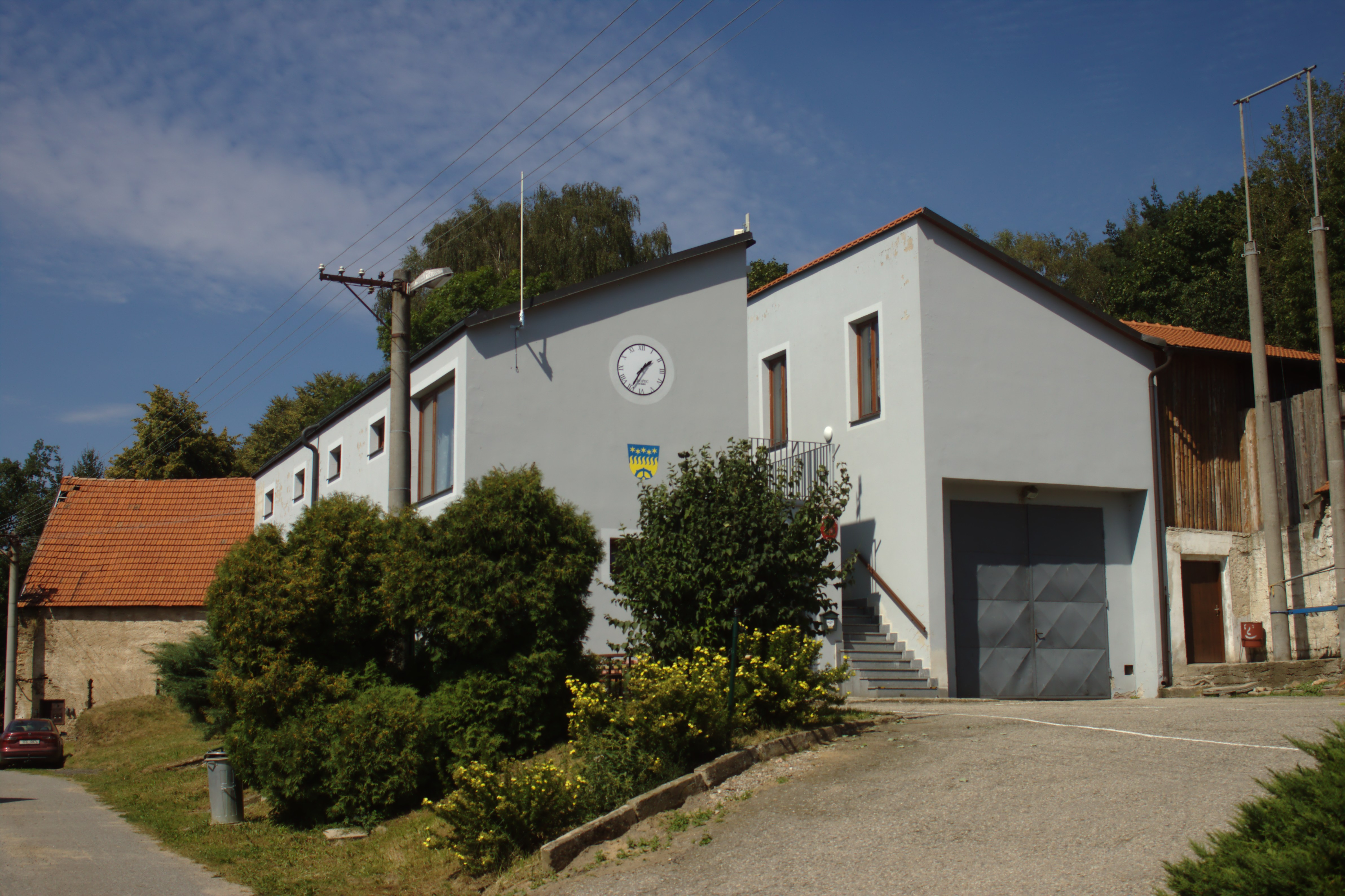 Town hall in Zhořec, Vysočina Region, CZ